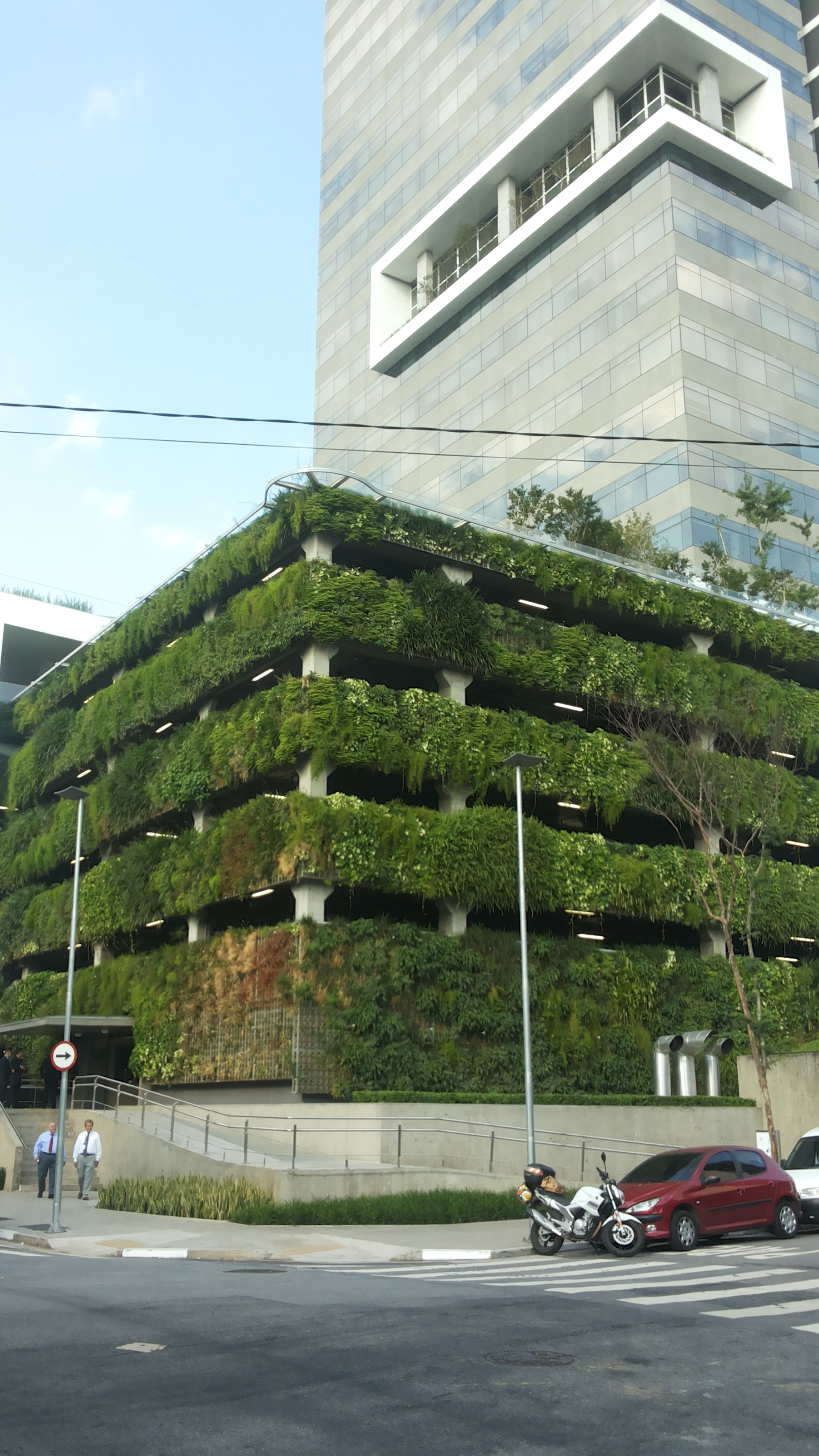 Odebrecht headquarters in São Paulo, Brazil.Português do Brasil: Edifício Odebrecht SP, Butantã, São Paulo. Prédio com plantas naturais ao redor do edifício.